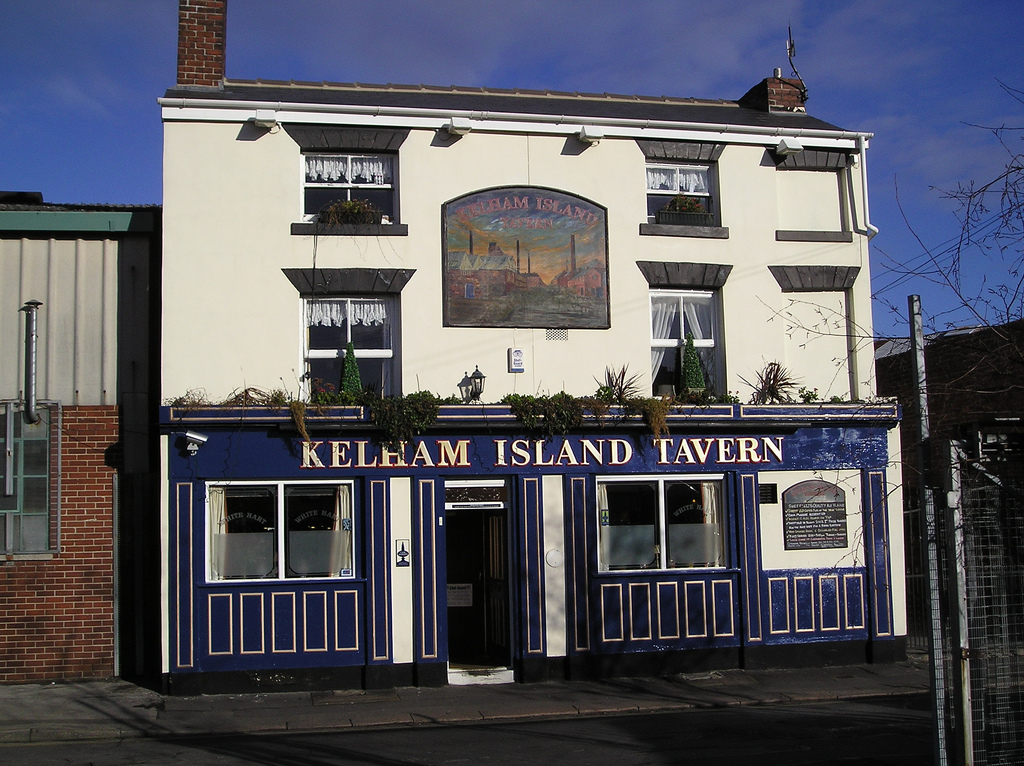 Kelham Island Tavern, Kelham Island, Sheffield, England, UK. Front view.